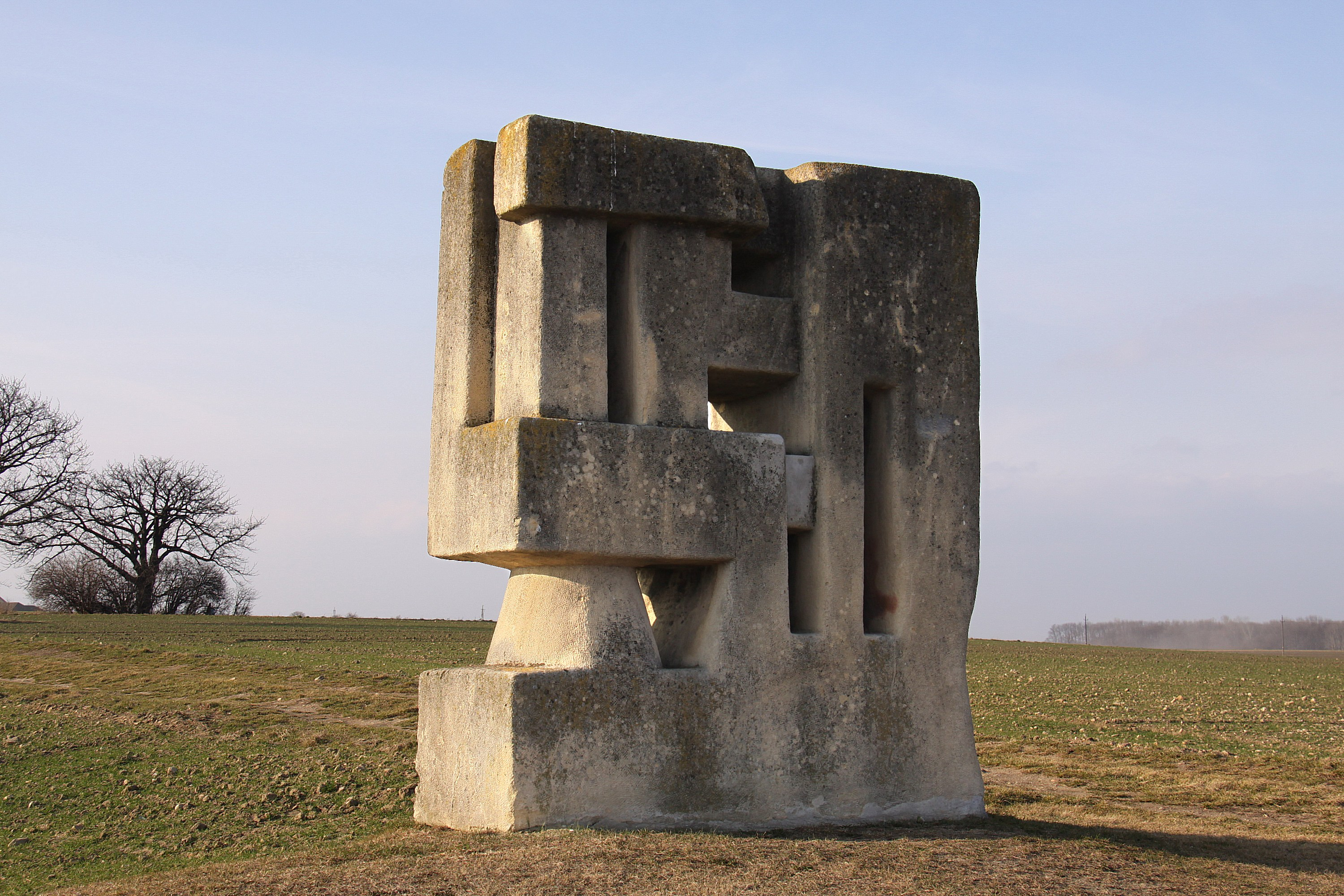 Grenzstein, a sculpture built by Karl Prantl- Pöttsching.